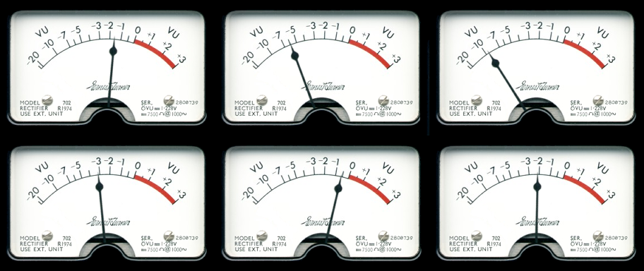 VU meters for surround sound.